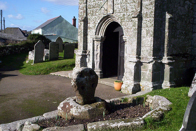 Cornish Cross near the door of Breage Church. Lovely Cross , the Church yard is circular usually meaning great age.